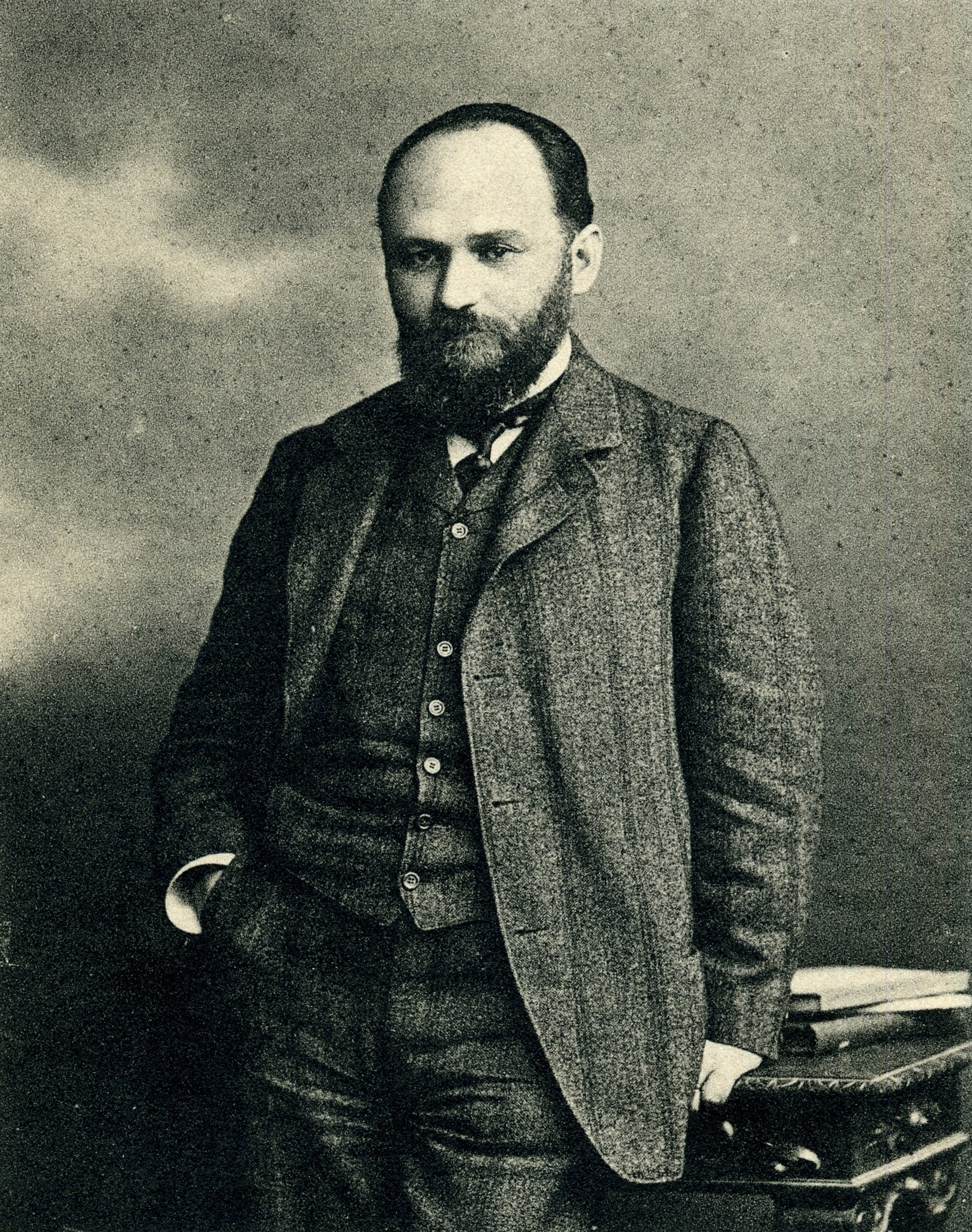 Maxim Vinaver, a member of the First Russian State Duma, 1906